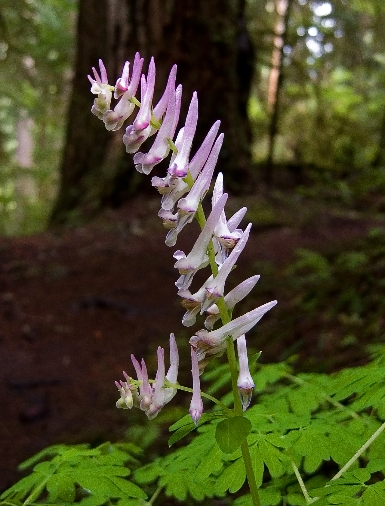 Along Mt Rainier's Green Lake Trail there were hundreds of these Scouler's Corydalis blooming. I didn't know what they were until I looked it up. Botanical name, Corydalis scouleri, of course.